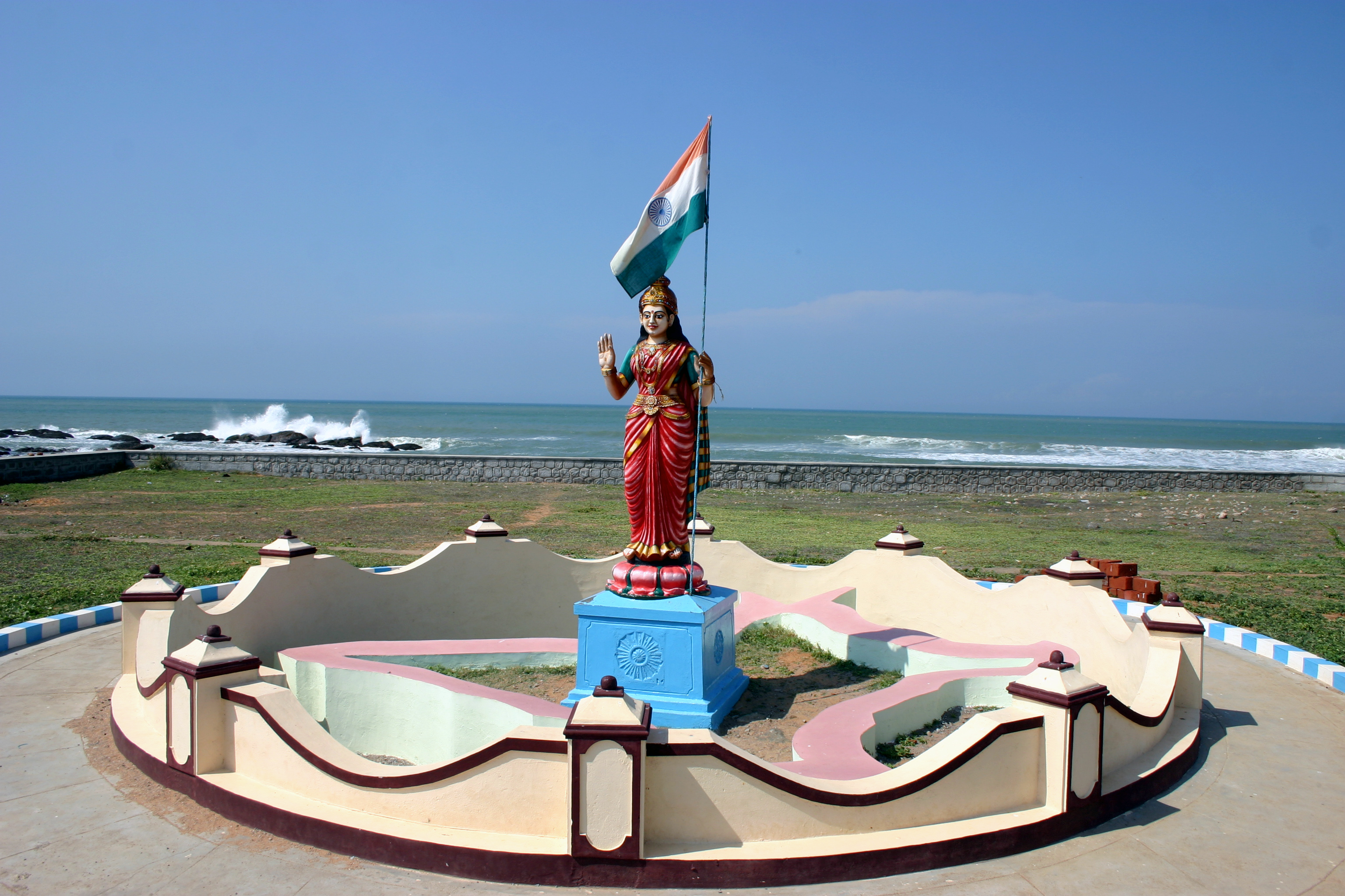 A statue of Bharat Mata in Kanyakumari, Tamil Nadu.